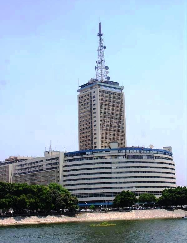 Maspiro Building (Egyptian Radio & Television Union HQ)